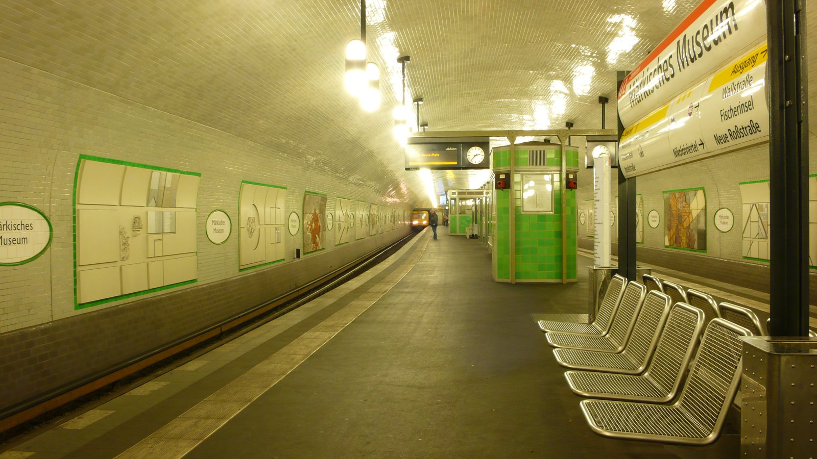 Maerkisches Museum sub